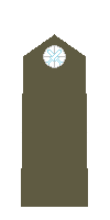 Rang insignia of the Czech Republic Army (rank group: enlisted men), here shoulder strap of the "Vojin/ Private E1" – Army/ ground forces (OR-1b, since 2011).